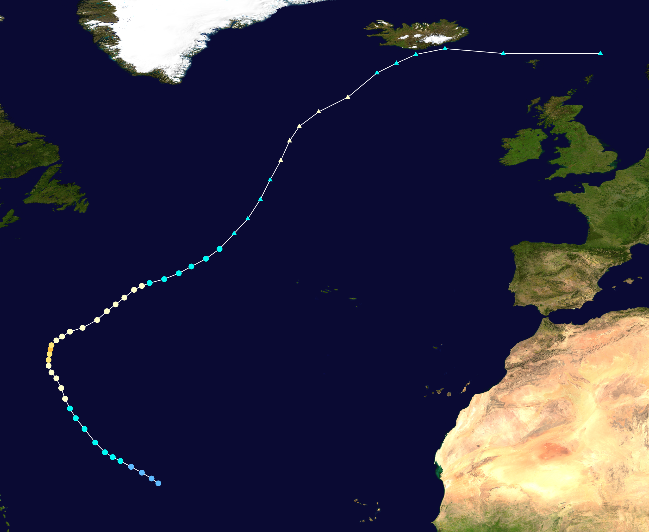 Track map of Hurricane Maria of the 2005 Atlantic hurricane season. The points show the location of the storm at 6-hour intervals. The colour represents the storm's maximum sustained wind speeds as classified in the Saffir–Simpson scale (see below), and the shape of the data points represent the nature of the storm, according to the legend below. Saffir–Simpson scale Tropical depression≤38 mph≤62 km/h Category 3111–129 mph178–208 km/h Tropical storm39–73 mph63–118 km/h Category 4130–156 mph209–251 km/h Category 174–95 mph119–153 km/h Category 5≥157 mph≥252 km/h Category 296–110 mph154–177 km/h Unknown Storm type Tropical cyclone Subtropical cyclone Extratropical cyclone / Remnant low / Tropical disturbance / Monsoon depression